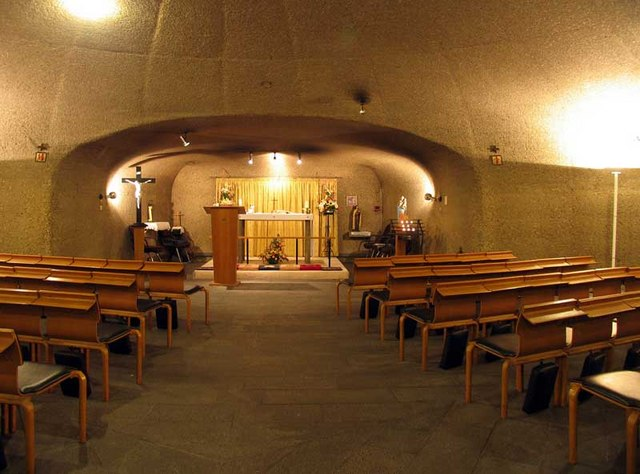 St George's Chapel, Heathrow Airport, Middlesex TW6 1BP - Altar